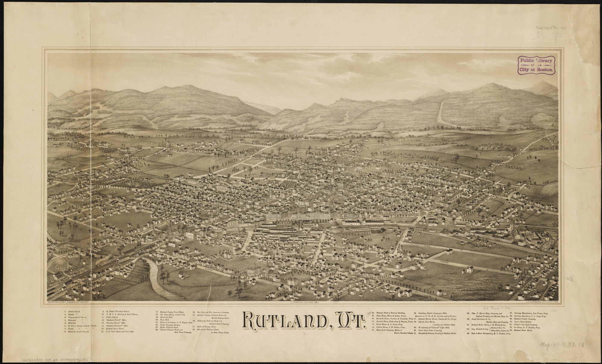 Zoom into this map at . Author: Burleigh, L. R. Publisher: L.R. Burleigh Date: c1885. Location: Rutland (Vt.) Scale: Not drawn to scale. Call Number: G3754.R9A3 1885.B8